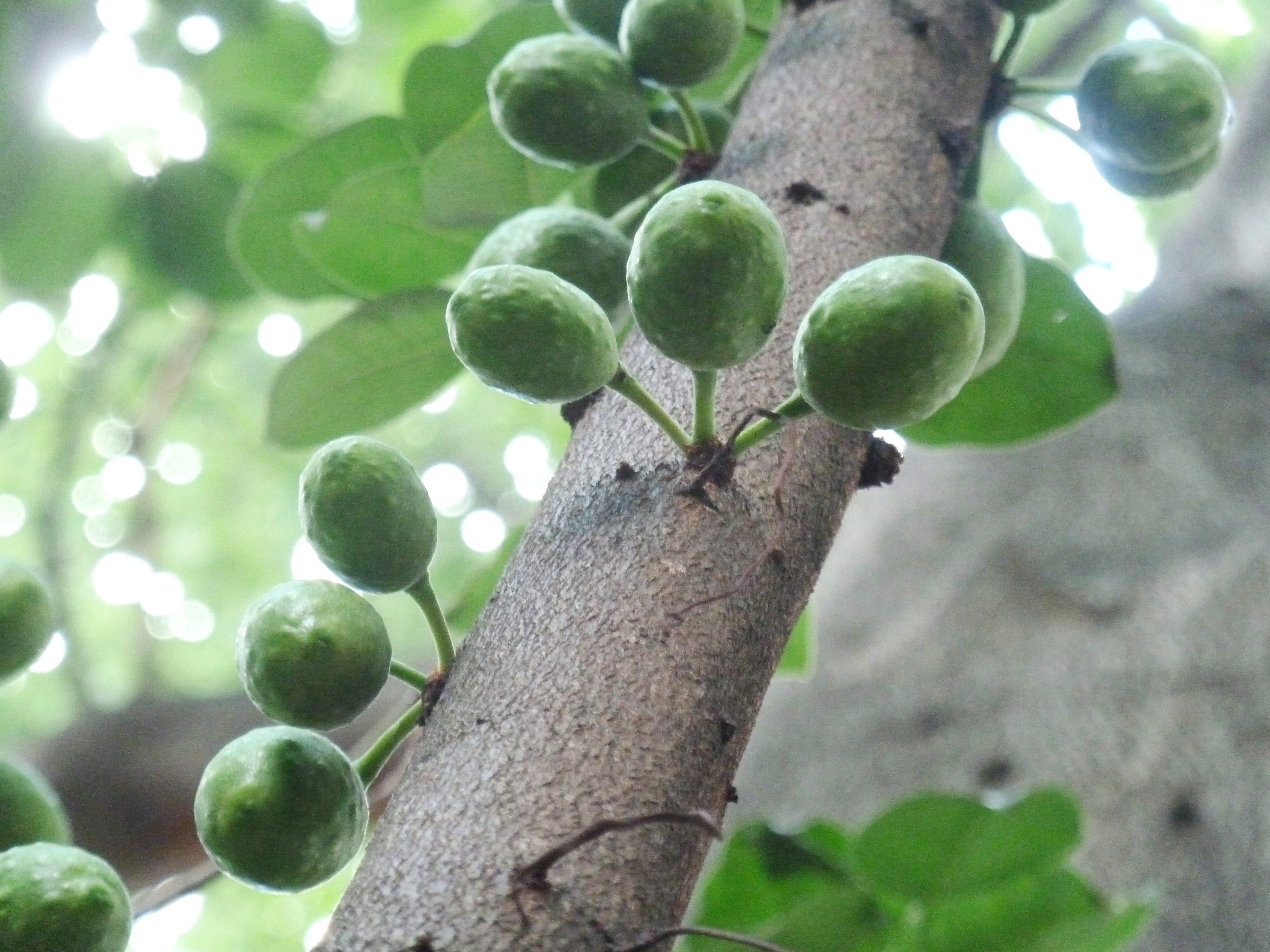 Figs of a Heart-leaved fig in the Manie van der Schijff Botanical Garden, Pretoria